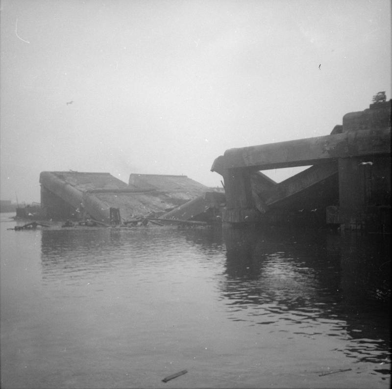 Germany Under Allied Occupation A view of the ruins of the U-Boat pens at Hamburg after their demolition.